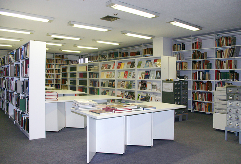 Εσωτερική άποψη της βιβλιοθήκης της Εθνικής Πινακοθήκης επί της οδού Μιχαλακοπούλου